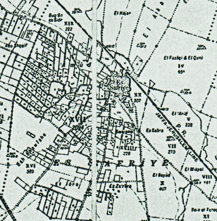 Es Safriye 1932 1:20,000